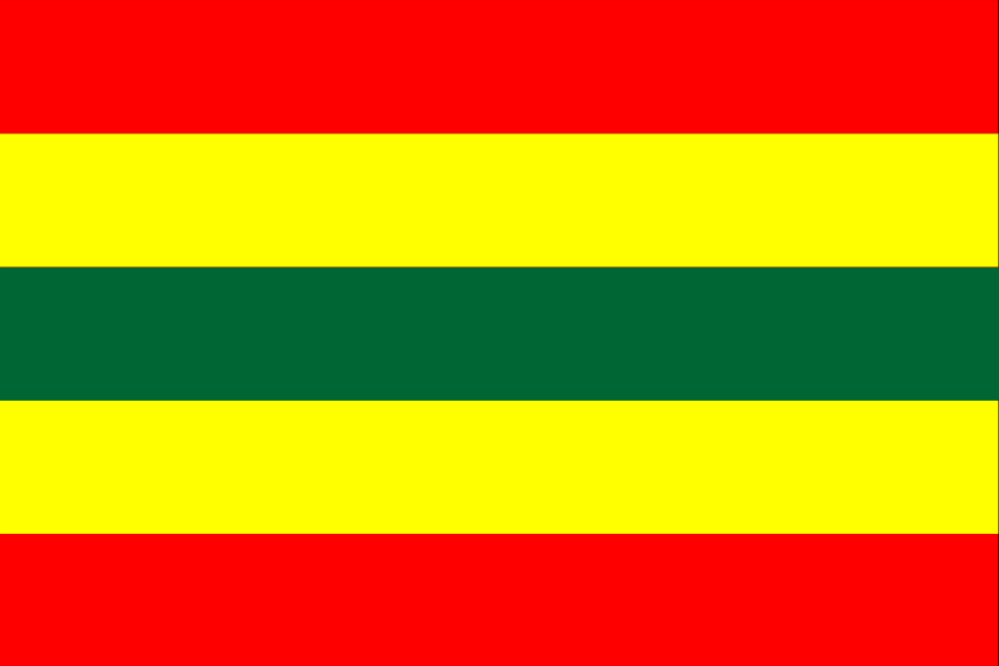 Algerian Naval flag (flag of Algerian corsairs) before 1830 (according to K.-H. Hesmer)